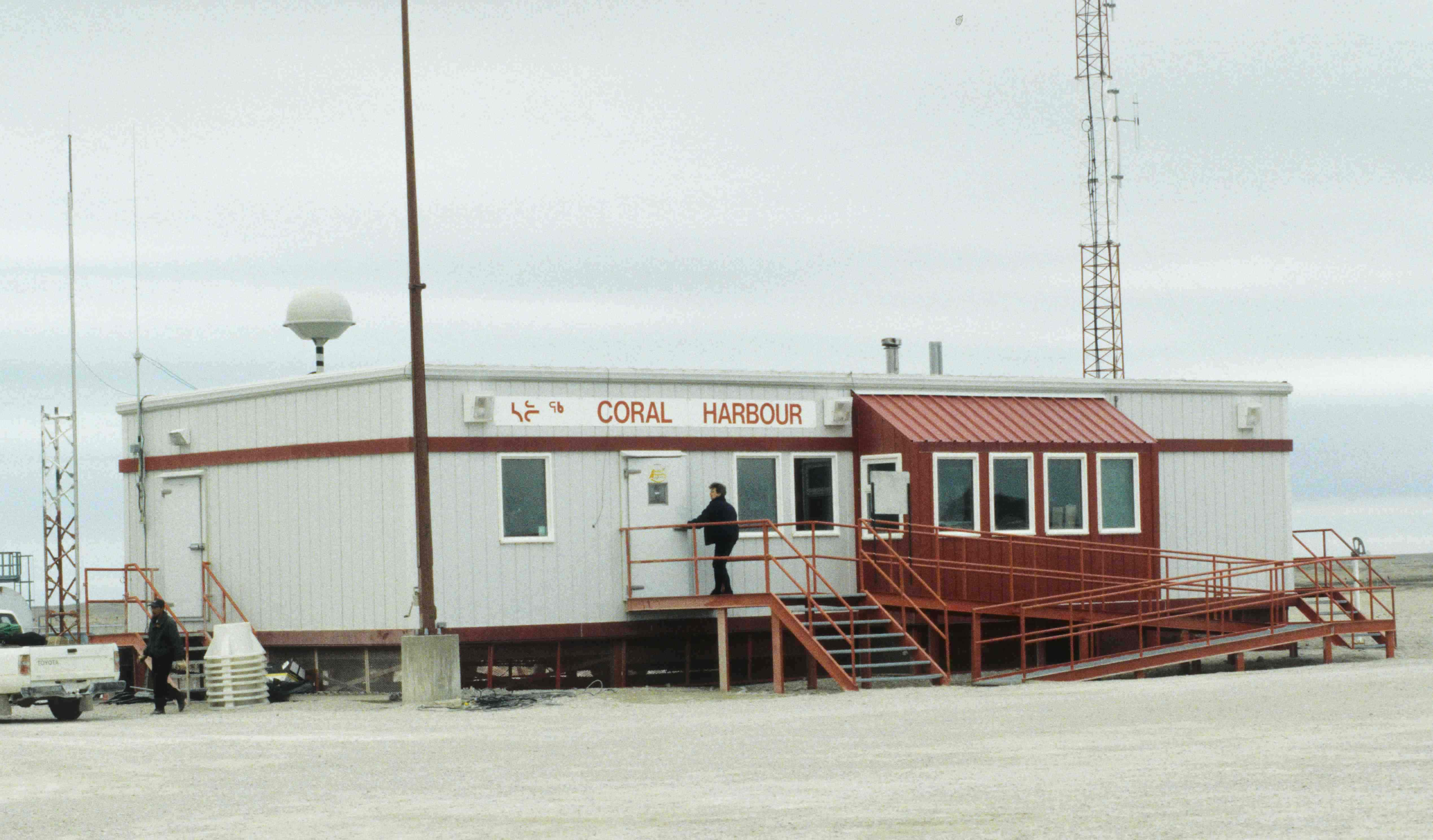 Coral Harbour (Southampton Island), Nunavut, Canada: Airport